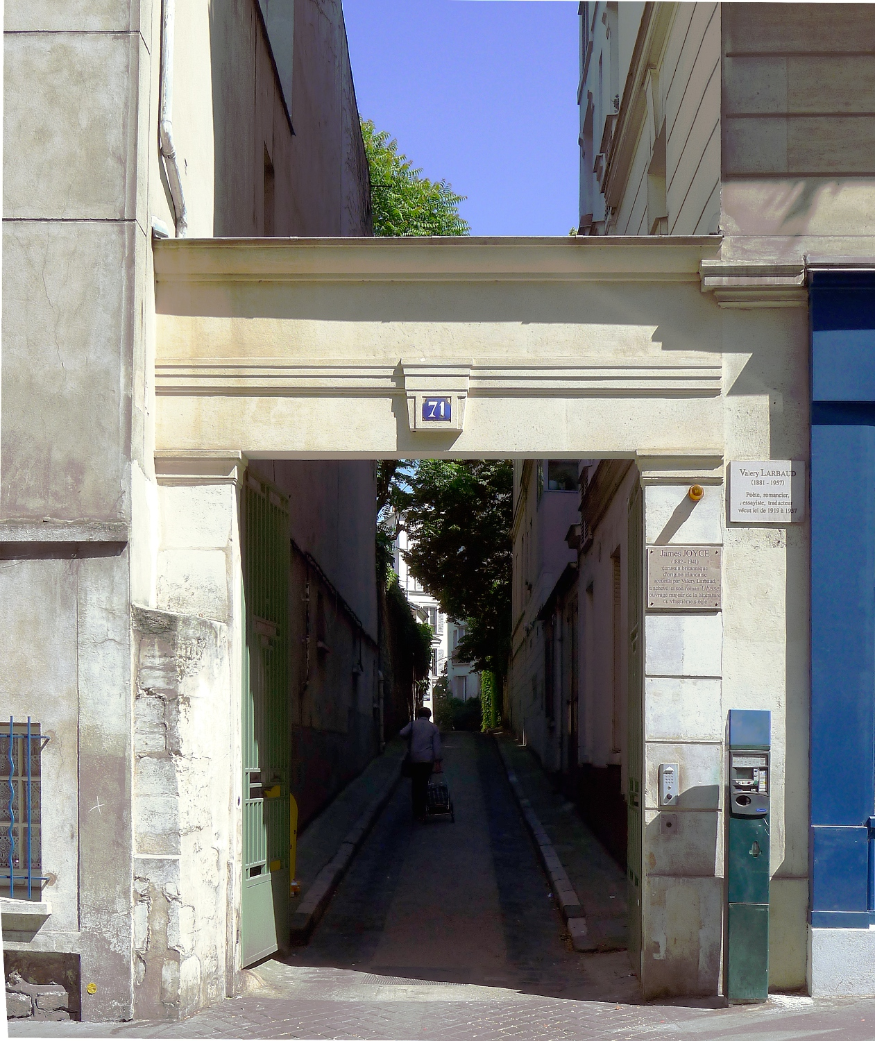 Cardinal-Lemoine street(n°71) - Paris